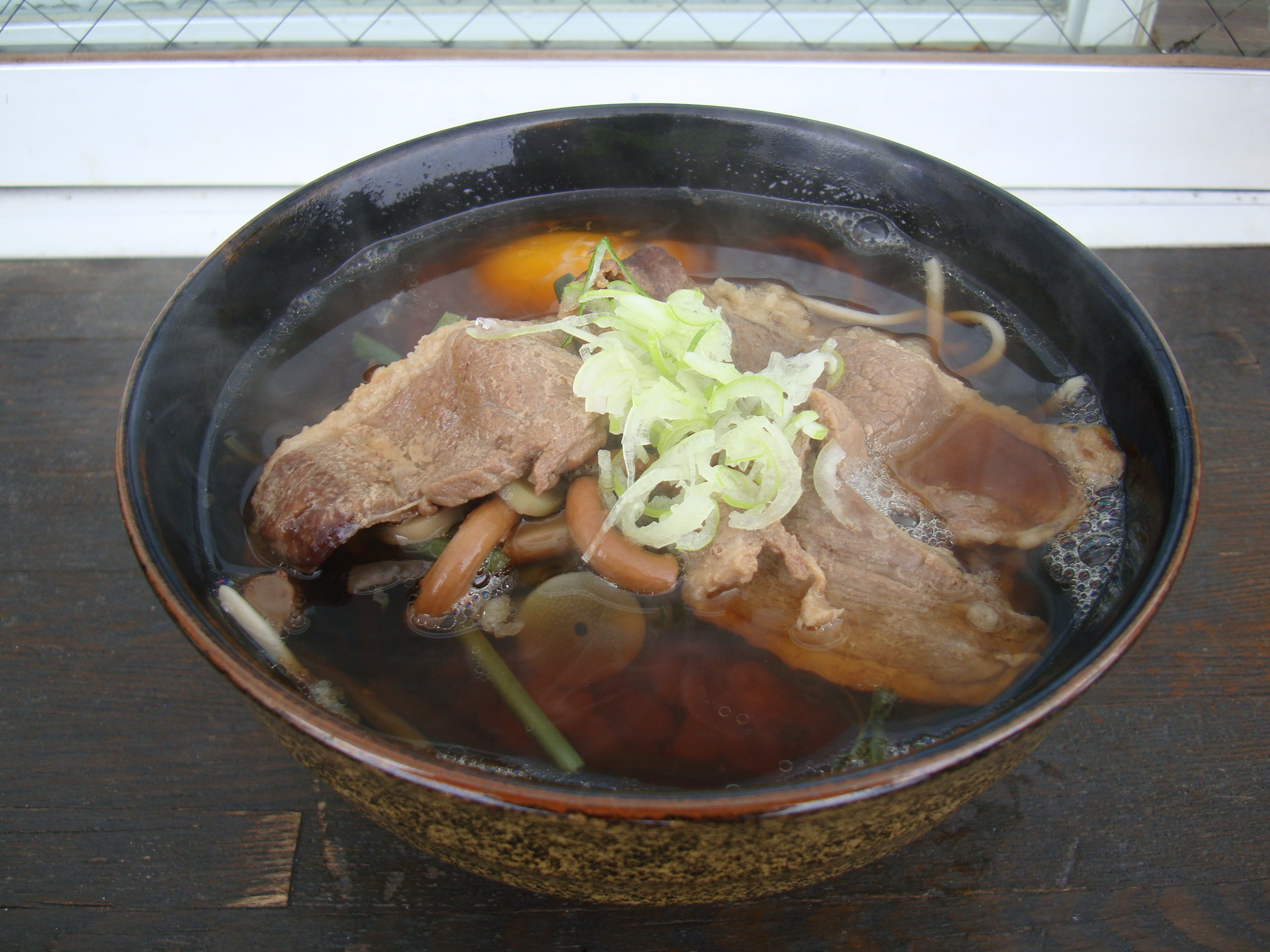 Engaru Station Soba